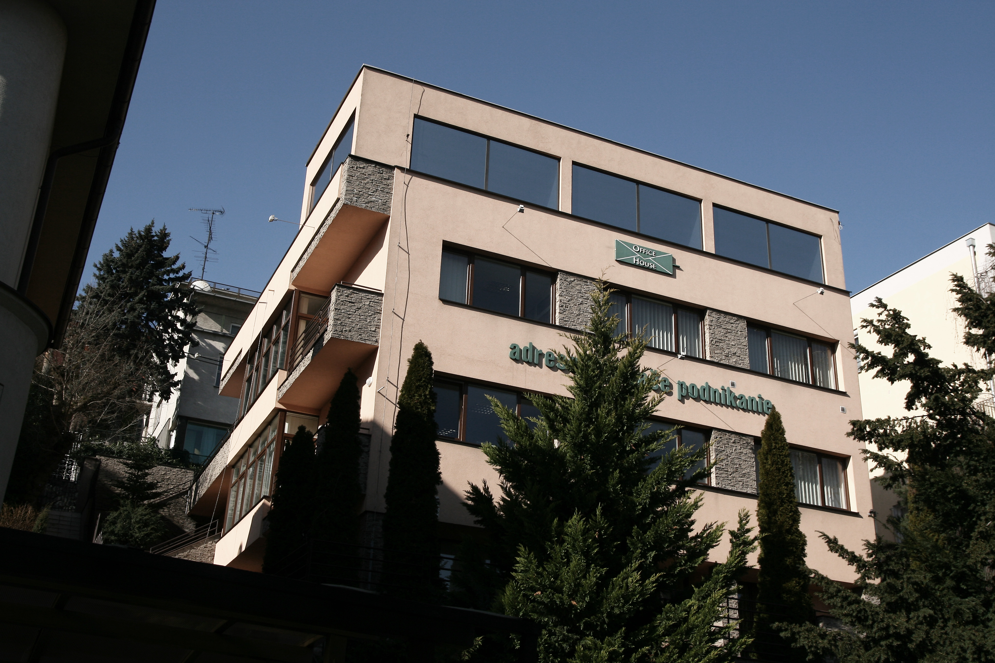 Novotný villa in Bratislava, Slovakia. Functionalist building from 1928/29, architect Adolf Benš.